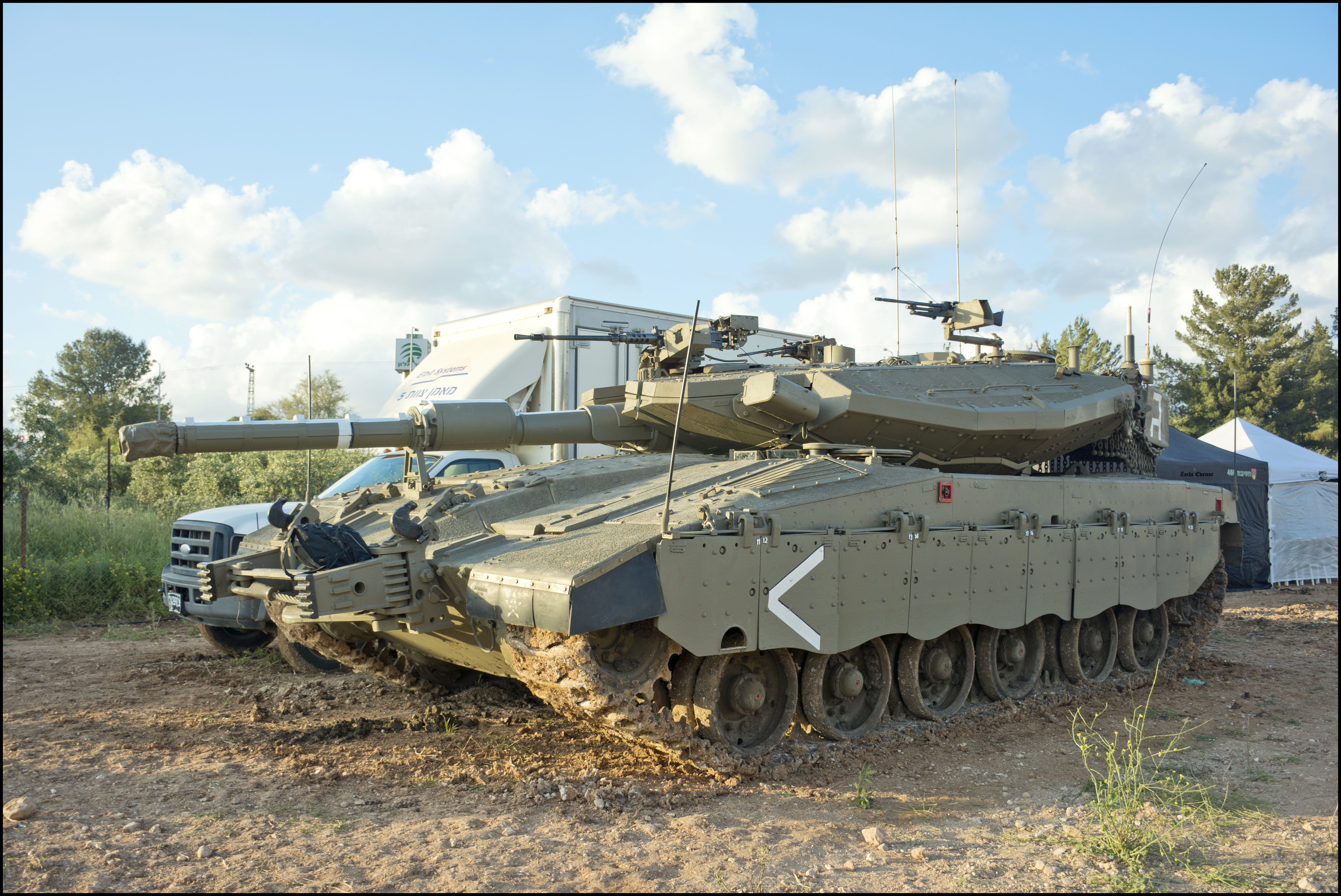 Merkava Mk 3D Baz main battle tank, Israel